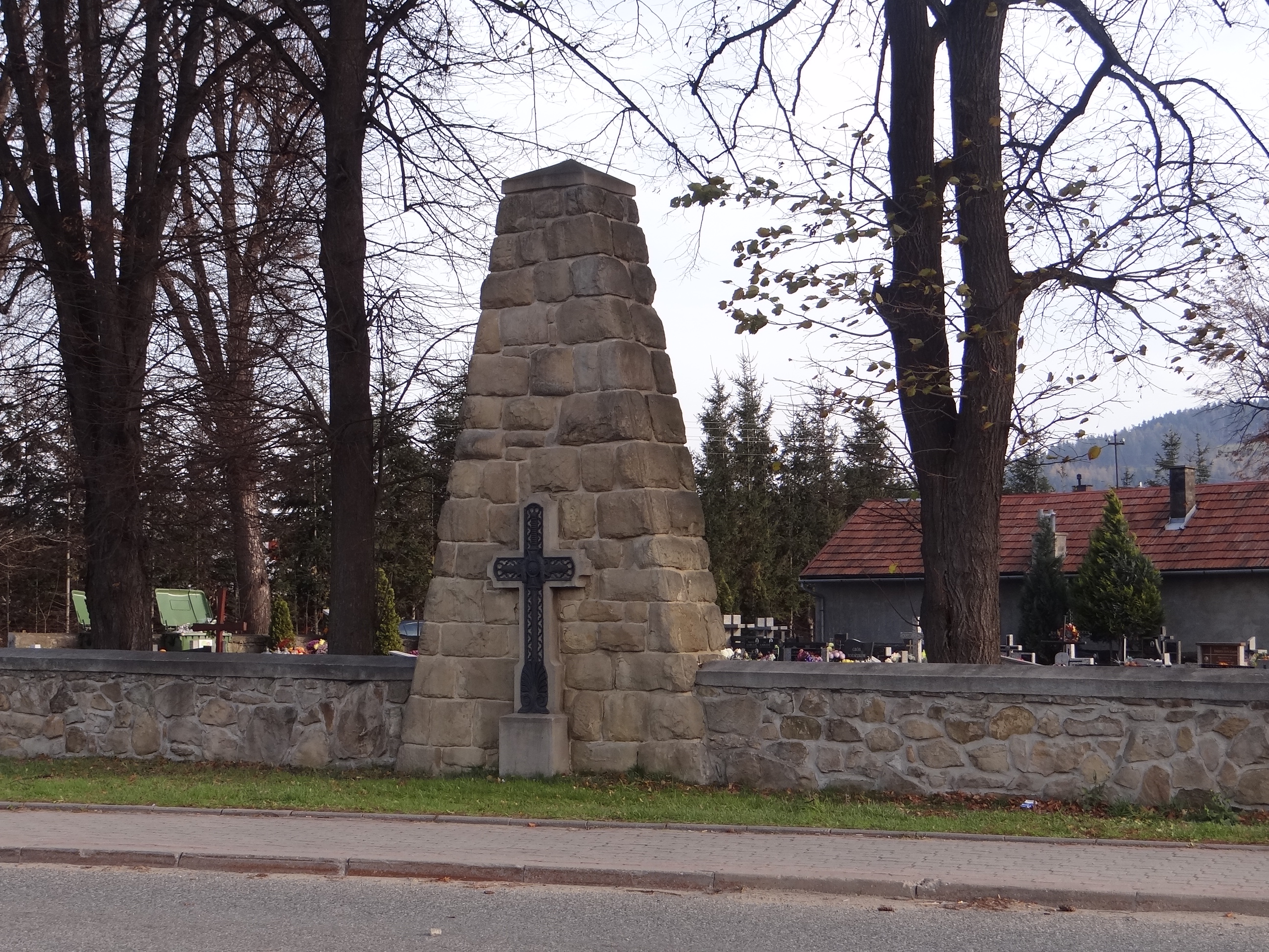 World War I Cemetery nr 347 in Barcice